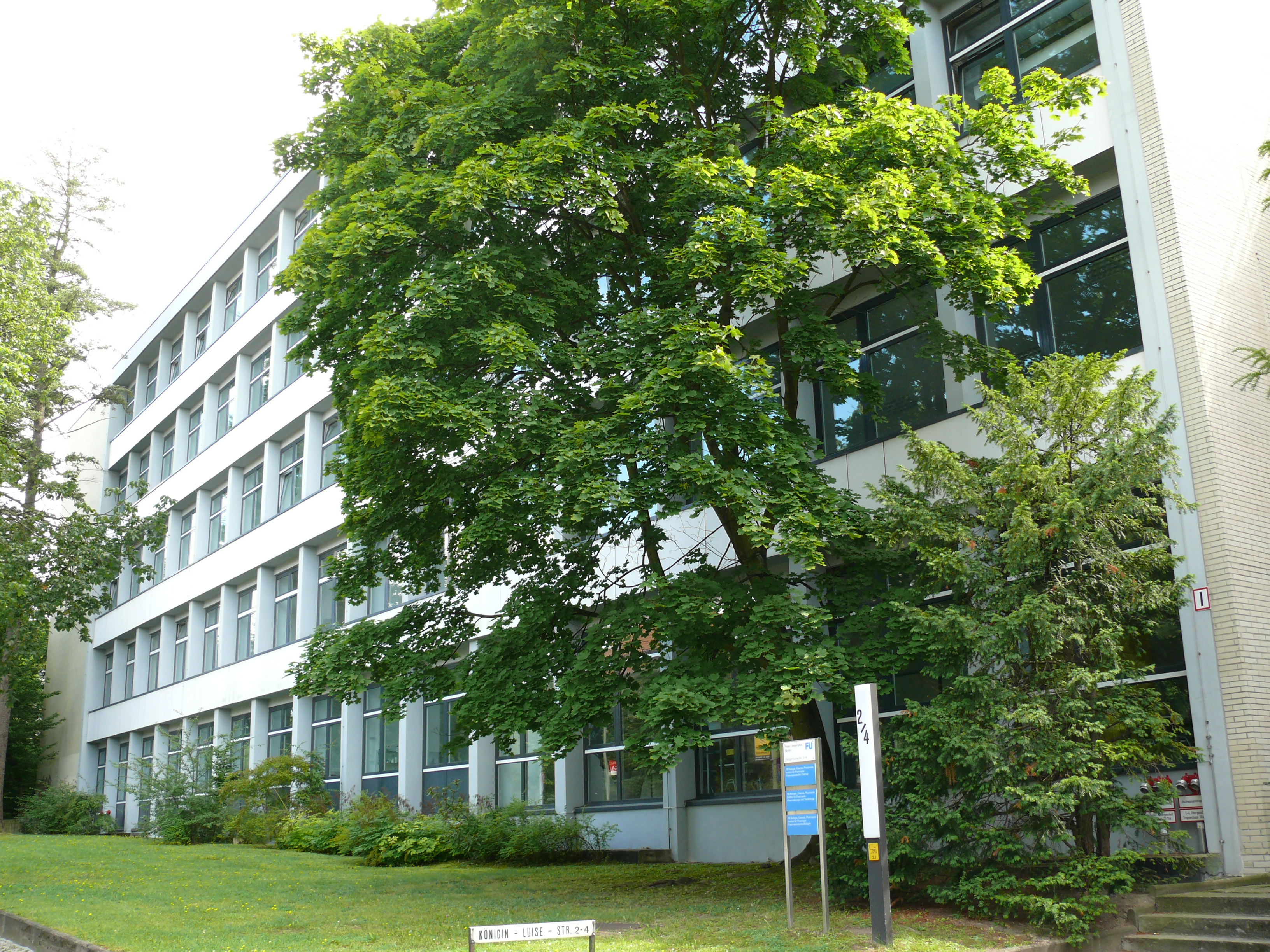 Berlin-Lichterfelde Königin-Luise-Straße 2-4 Institut für Pharmazie der FU-Berlin